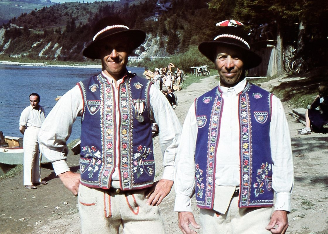 Spa town Szczawnica in Poland 1939. Mountain hut called PTTK Orlica in Pieniny. River Dunajec. Lightermans and tourists. This Agfacolor photo (invention from 1936) was not colorized.